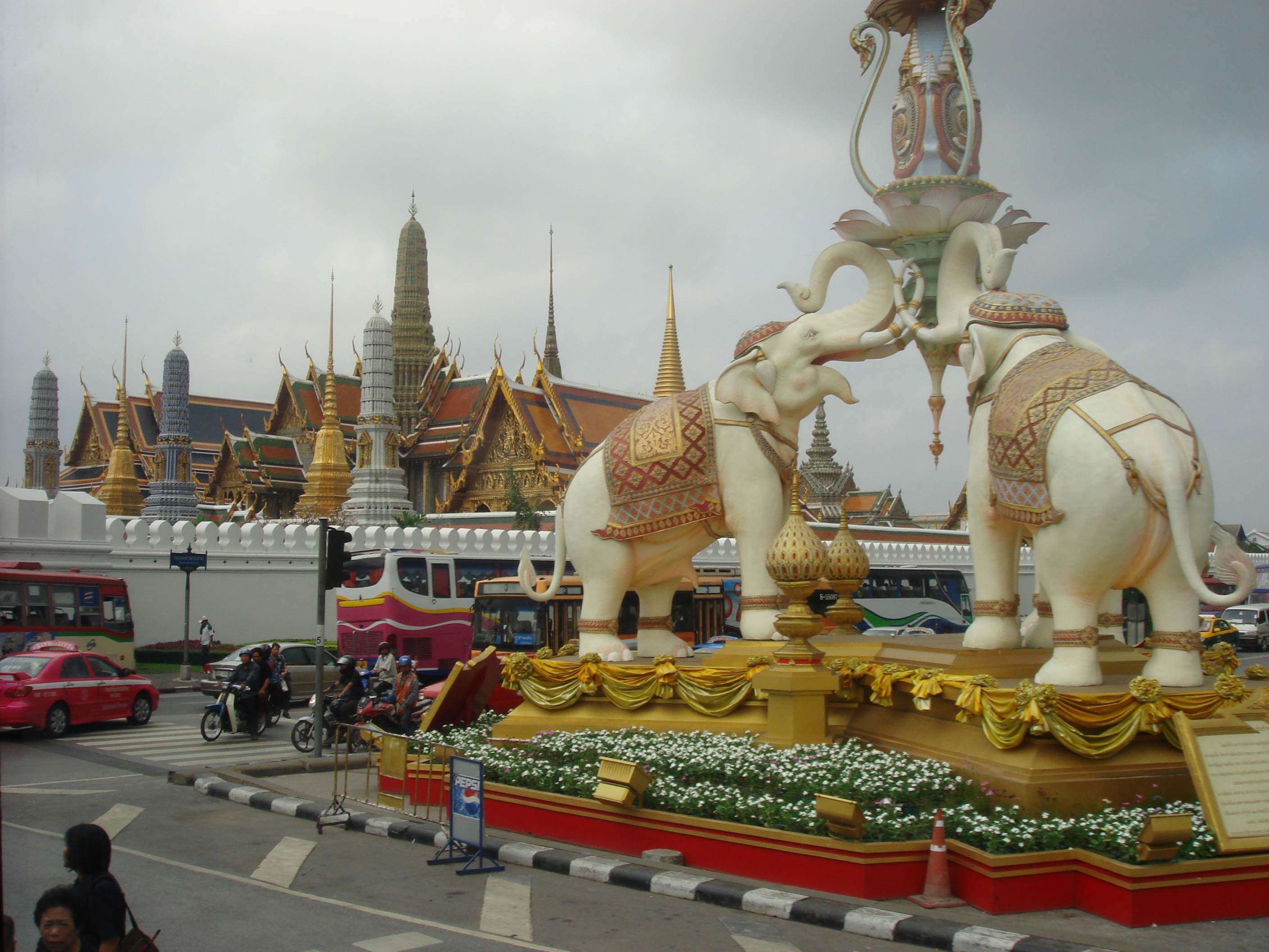 The Royal Palace of Bangkok, Thailand